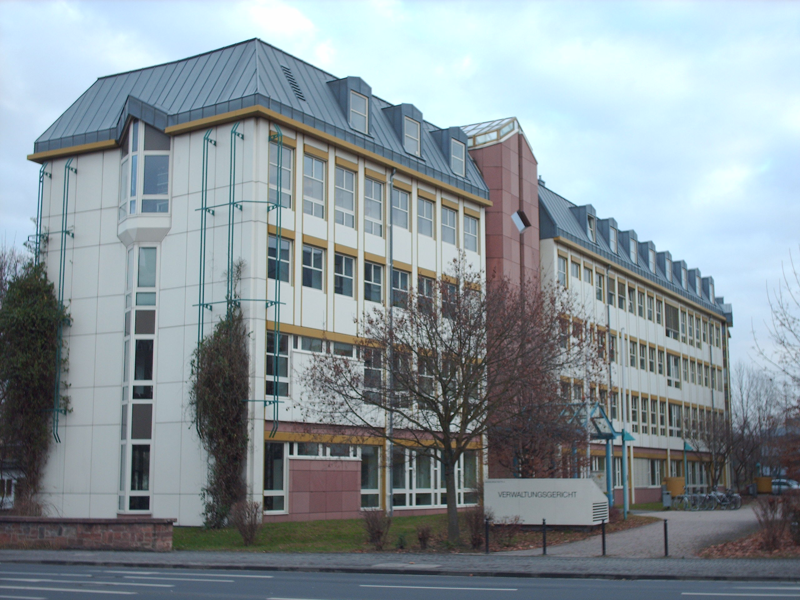 Courthouse Verwaltungsgericht Gießen, Gießen, Germany check usage